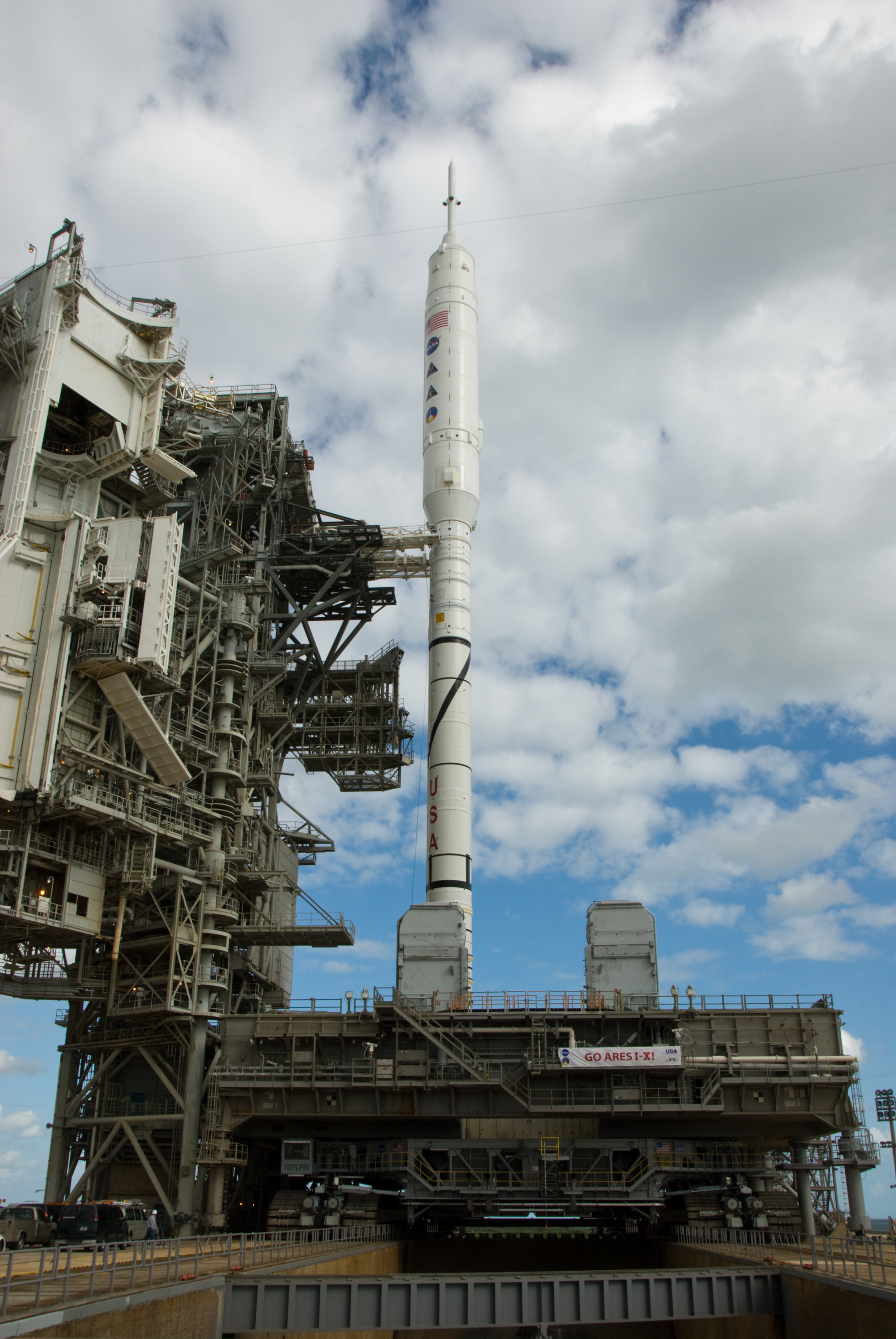 The towering 327-foot-tall Ares I-X rocket, newly arrived on Launch Pad 39B at NASA's Kennedy Space Center in Florida, rests securely on its mobile launcher platform following its seven-hour early-morning trek. The test rocket left the Vehicle Assembly Building at 1:39 a.m. EDT on its 4.2-mile trek to the pad and was "hard down" on the pad’s pedestals at 9:17 a.m. The transfer of the pad from the Space Shuttle Program to the Constellation Program took place May 31. Modifications made to the pad include the removal of shuttle unique subsystems, such as the orbiter access arm and a section of the gaseous oxygen vent arm, along with the installation of three 600-foot lightning towers, access platforms, environmental control systems and a vehicle stabilization system. Part of the Constellation Program, the Ares I-X is the test vehicle for the Ares I. The Ares I-X flight test is targeted for Oct. 27. For information on the Ares I-X vehicle and flight test, visit